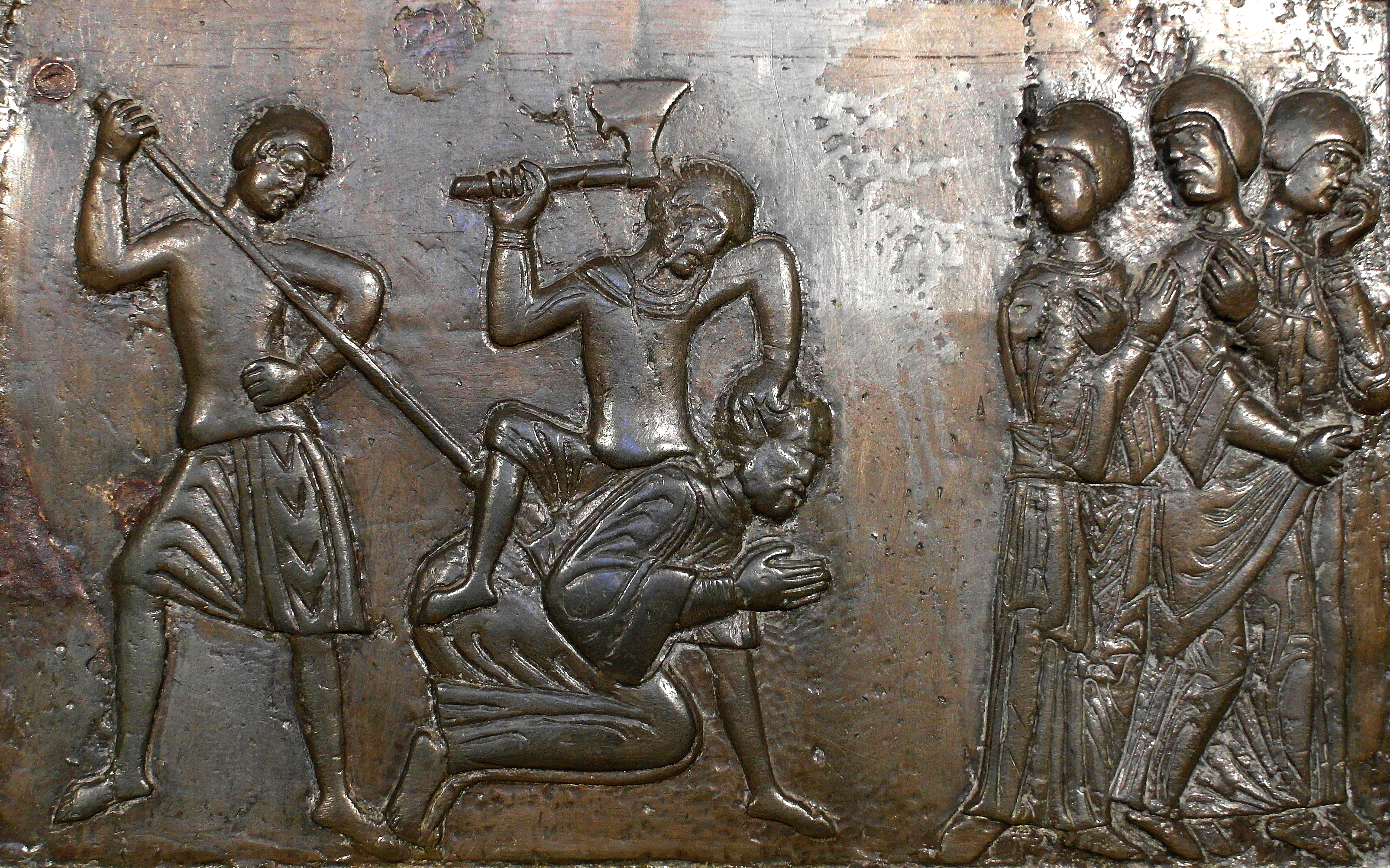 Death of Saint Adalbert of Prague, Gniezno Doors ca. 1170